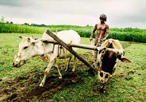 == Licensing: ==